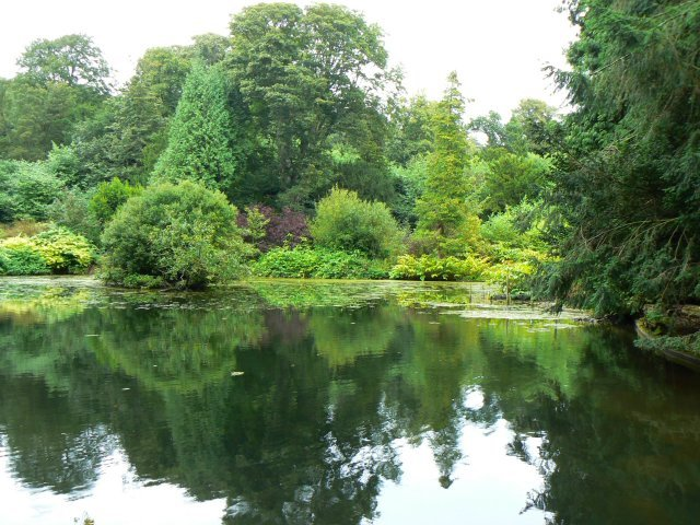 Ornamental pond In the grounds of Charleton House.